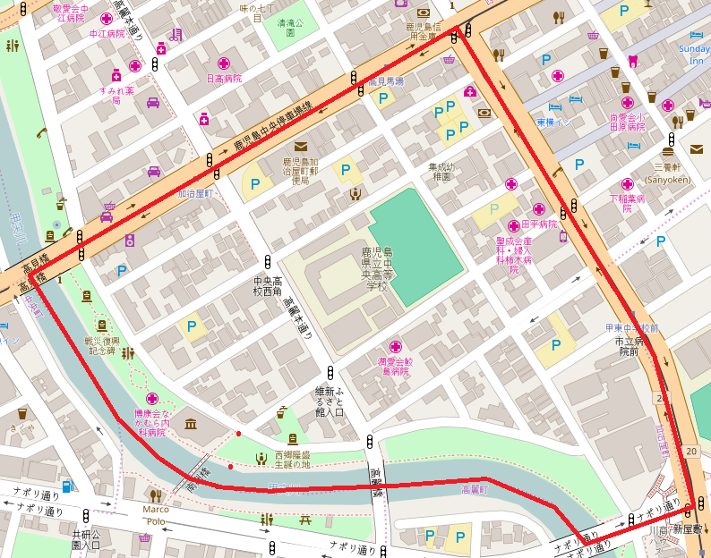 This map may be incomplete, and may contain errors. Don't rely solely on it for navigation.